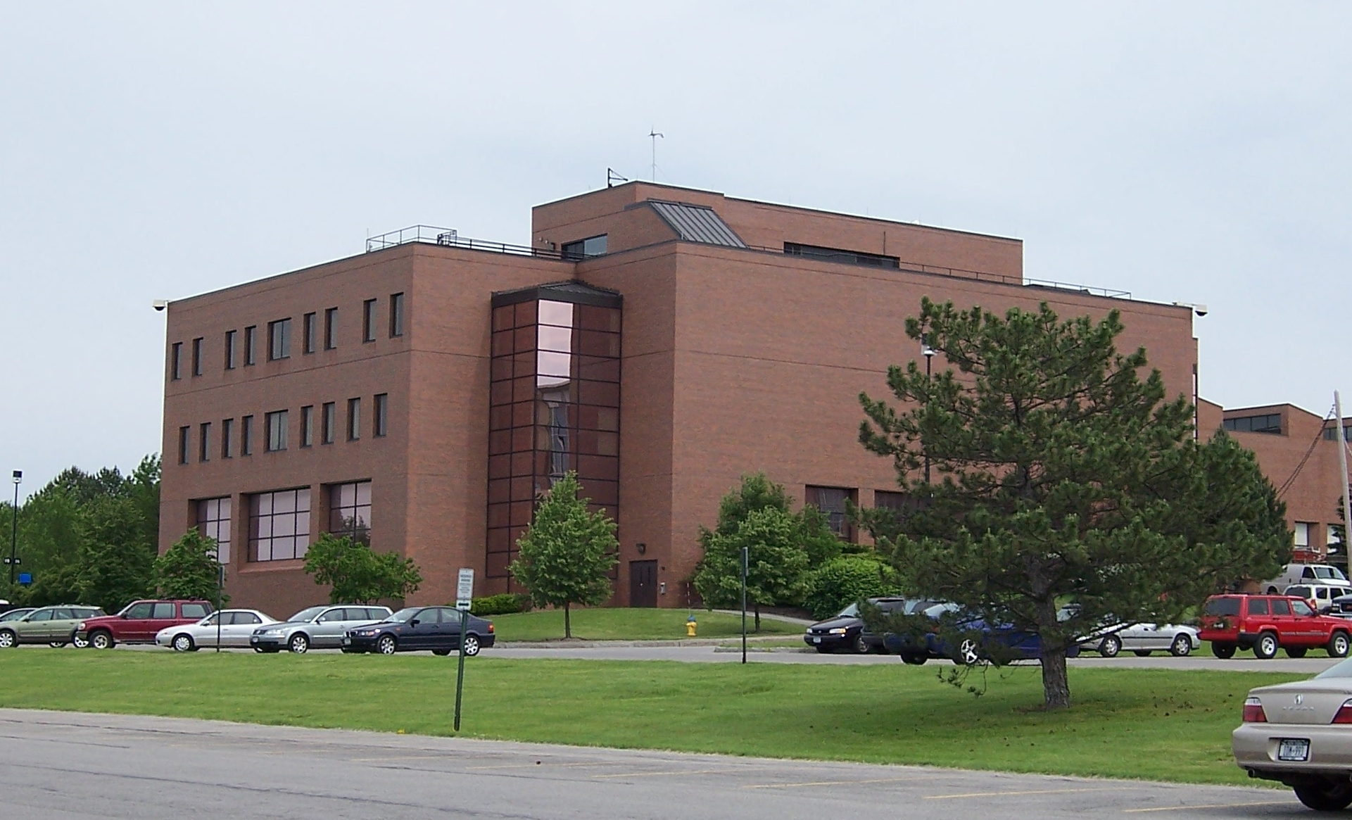 The Chester F. Carlson Center for Imaging Science on the RIT campus, building 76. Chester Carlson was the inventor of xerography and a major supporter of RIT. The Carlson Building is the primary building for RIT's Imaging Science program.